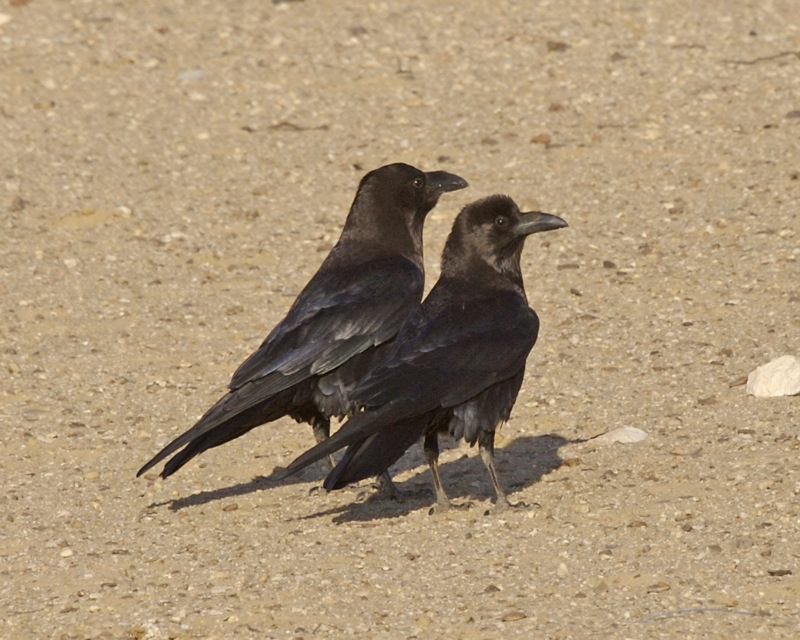 Brown-necked Raven Corvus ruficollis El Fayoum, Egypt 5th. January 2008 _Q0S5335 Arabic: الغراب بني الرقبة, غراب البين Distribution